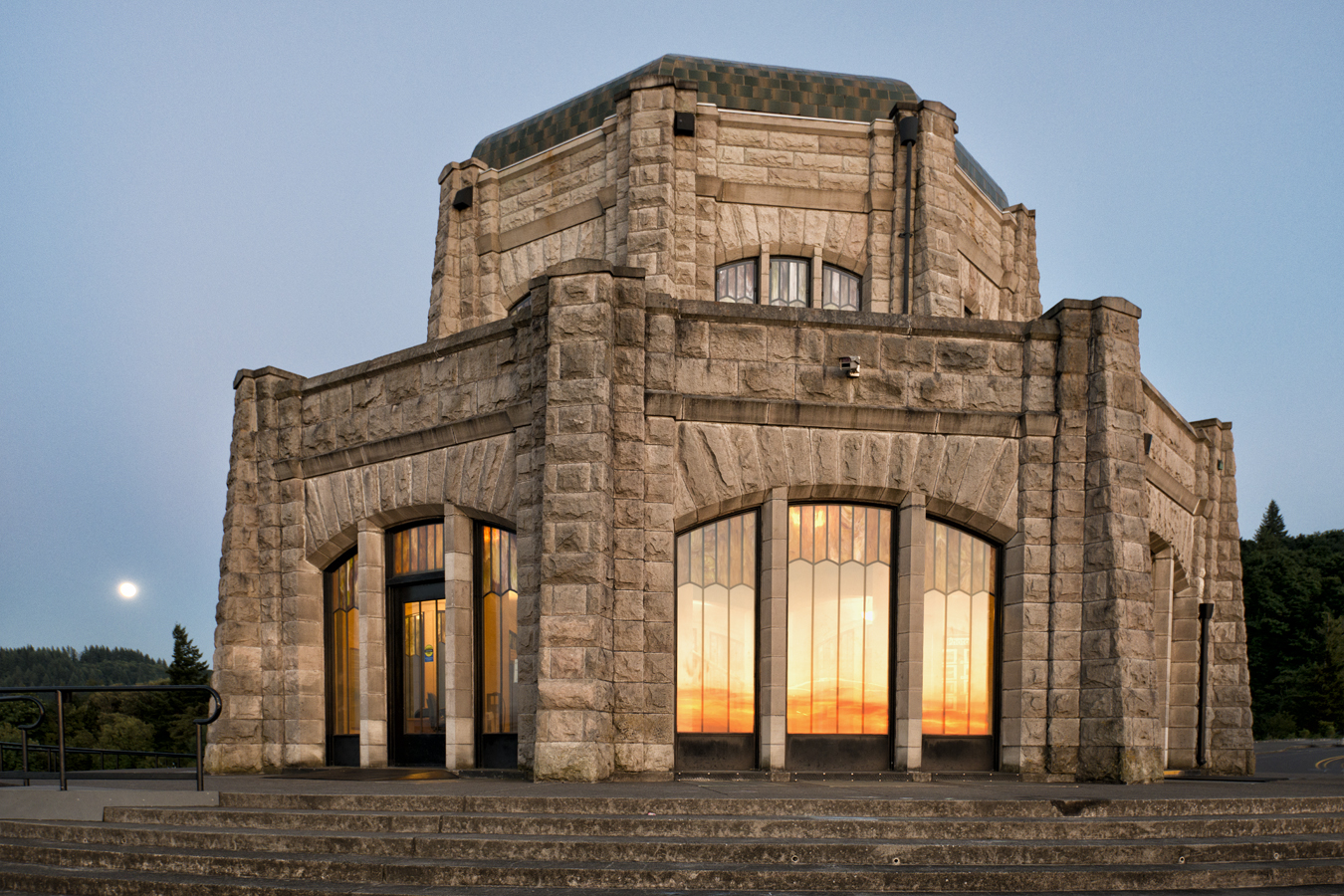 Sunset is reflected in the windows of Vista House, erected ca. 1917 north of the Columbia river about 30 miles east of Portland, Oregon.